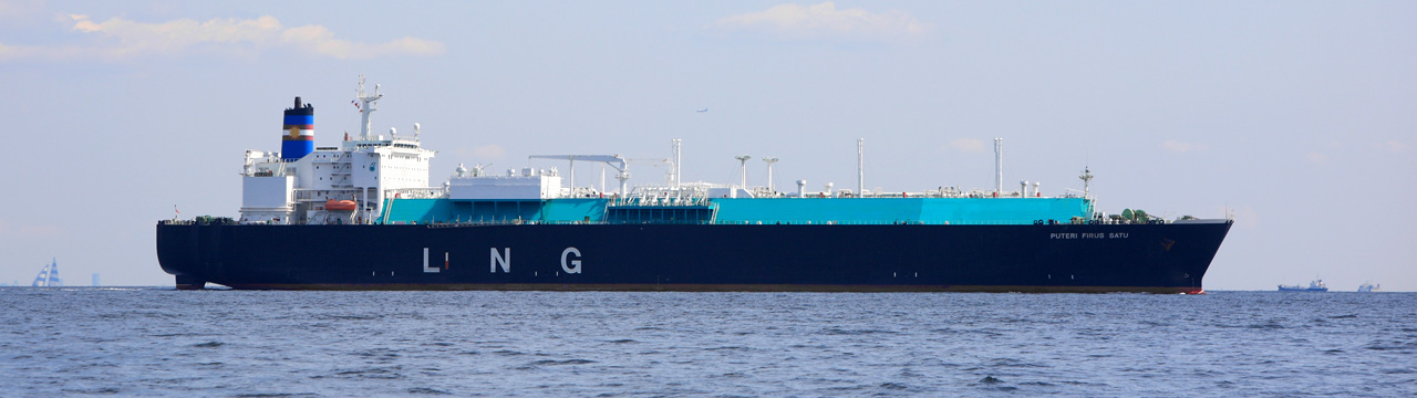 Membrane type LNG tanker Puteri Firus Satu in Tokyo Bay. IMO Number: 9248502 MMSI Number: 533808000 Callsign: 9MGF7 Length: 275 m Beam: 42 m